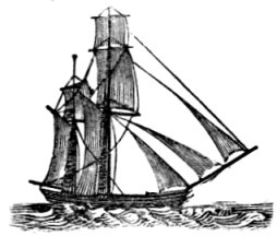 Ketch (ship), scan of engraving from 19th century Cyclopedia